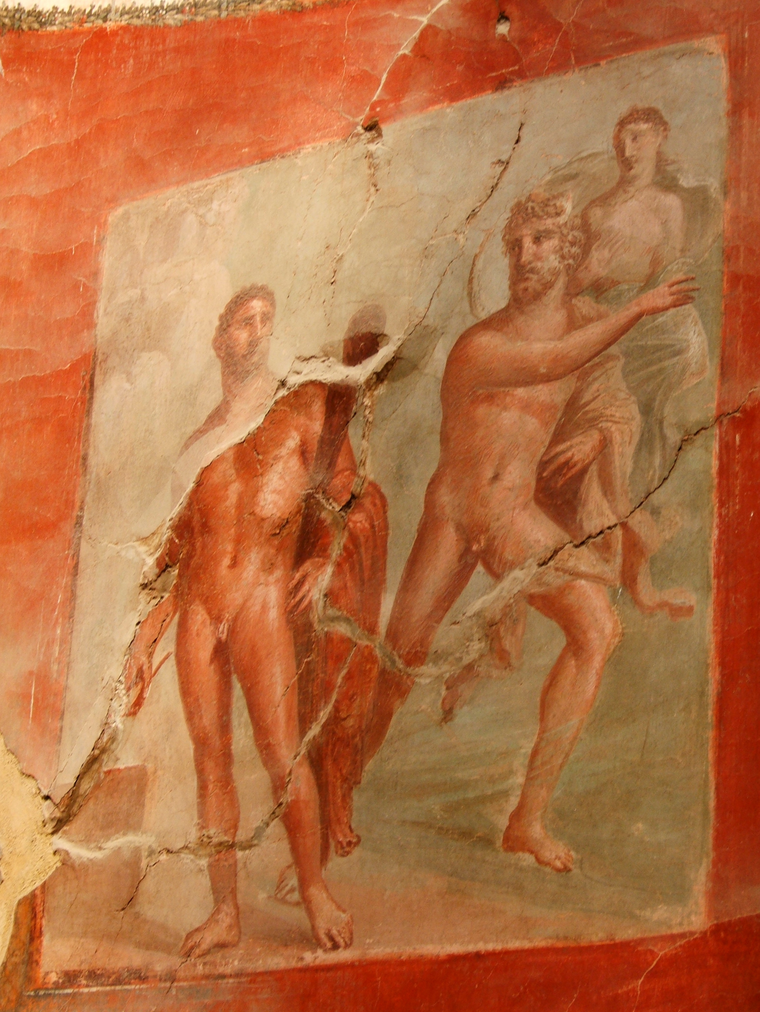 Hall of the Augustals (Herculaneum) - This fresco depicts Hercules with Achelous.